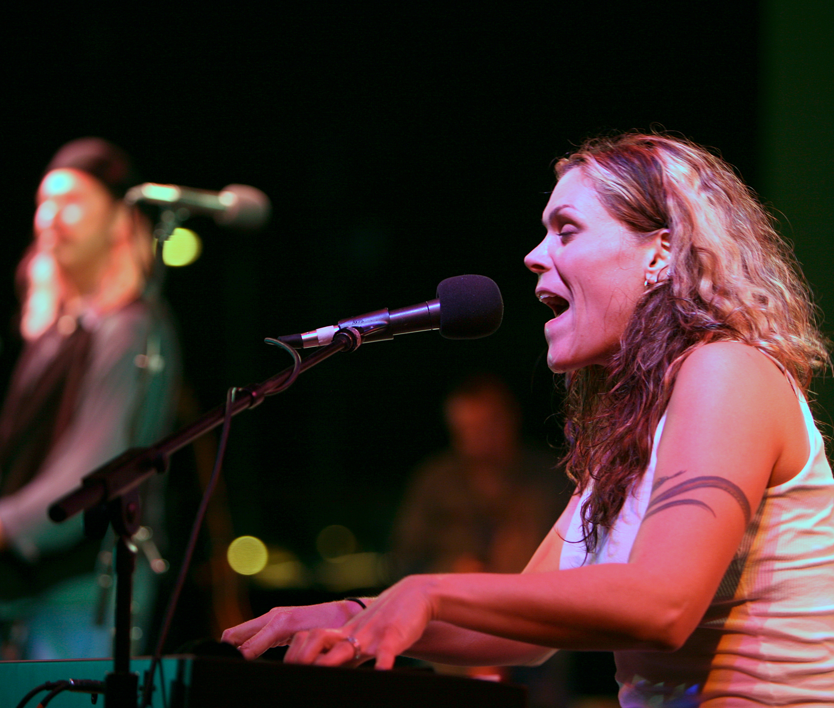 Beth Hart at San Diego Indie Music Fest